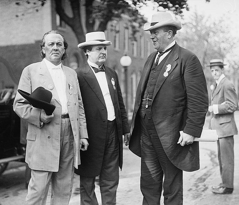 Sen. Vardaman, Congr. Heflin, Ollie James (LOC) Bain News Service,, publisher. Sen. James Kimble Vardaman, James Thomas Heflin, Ollie James in 1912 [between ca. 1910 and ca. 1915] 1 negative : glass ; 5 x 7 in. or smaller. Notes: Title from unverified data provided by the Bain News Service on the negatives or caption cards. Forms part of: George Grantham Bain Collection (Library of Congress). Format: Glass negatives. Repository: Library of Congress, Prints and Photographs Division, Washington, D.C. 20540 USA, General information about the Bain Collection is available at Persistent URL: Call Number: LC-B2- 2729-11